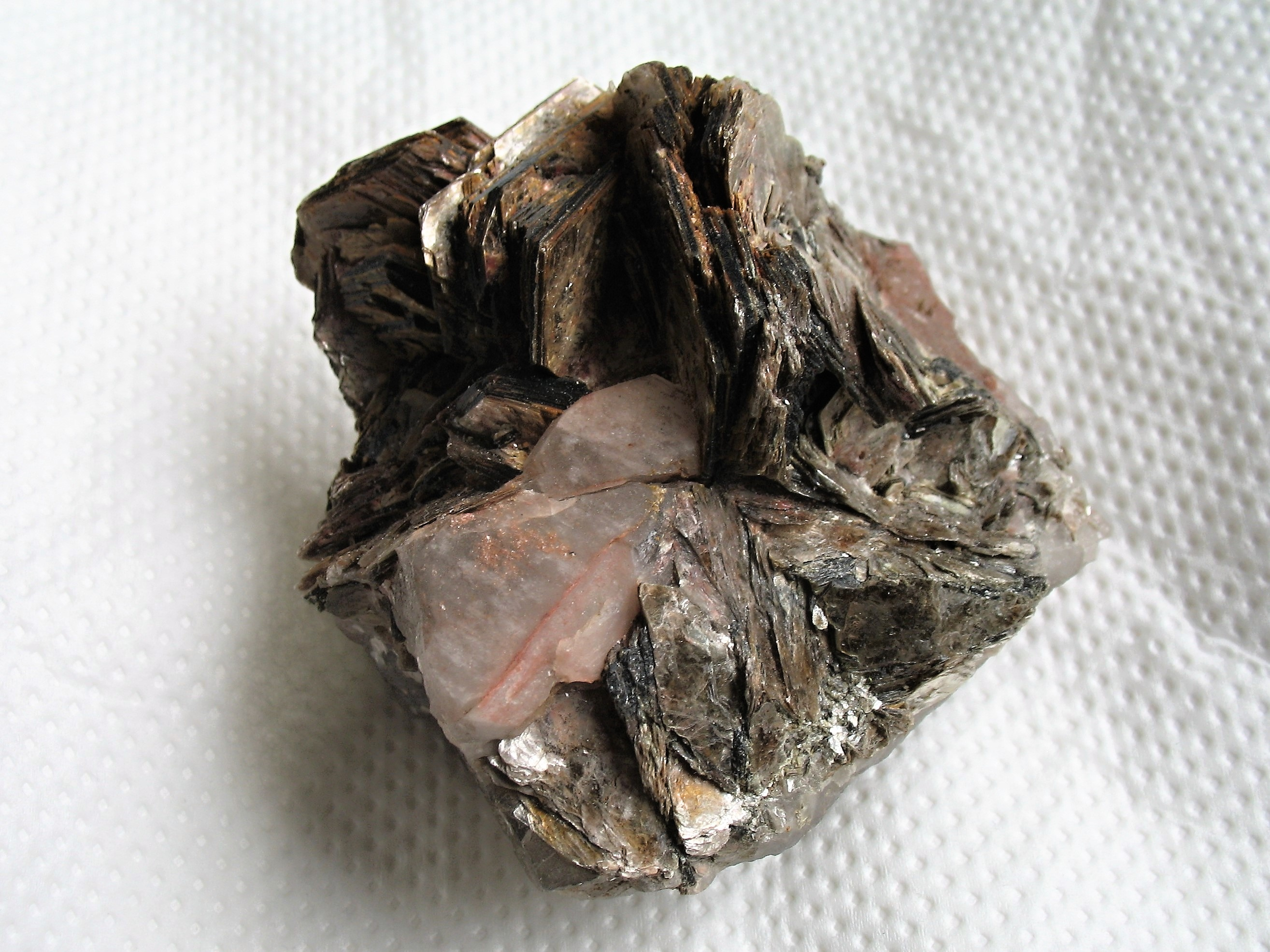 Zinnwaldite from Cínovec, Czech Republic